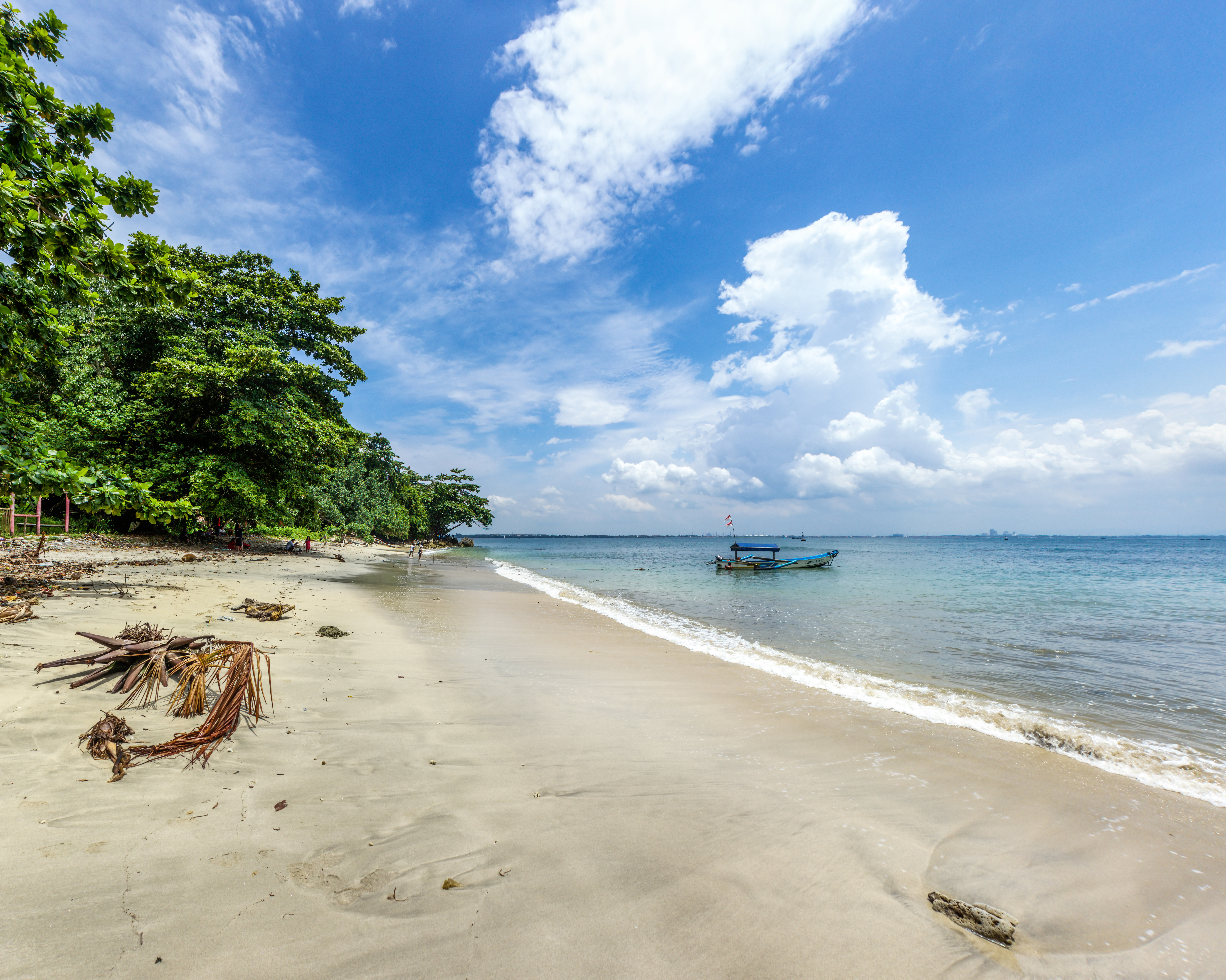 Beach west of Karang Bolong, Nusakambangan, Cilacap 2015-03-21 (may be considered part of Karang Bolong beach)